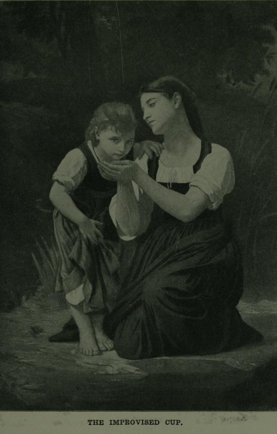 Illustration from "Vivilore: The Pathway to Mental and Physical Perfection"